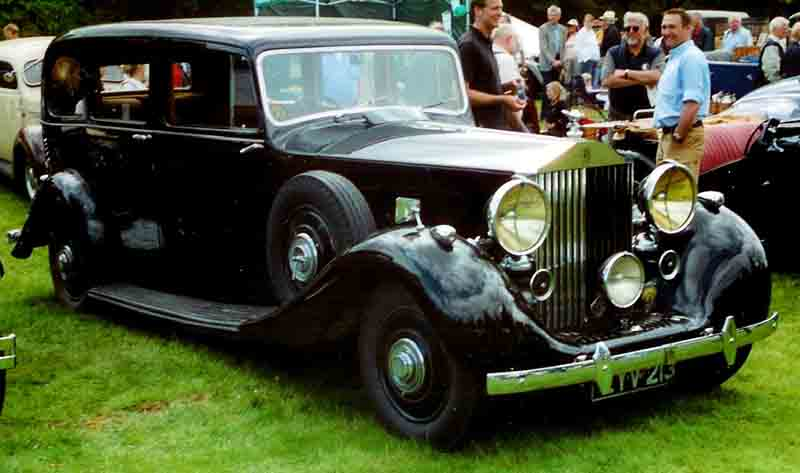 Rolls-Royce Limousine